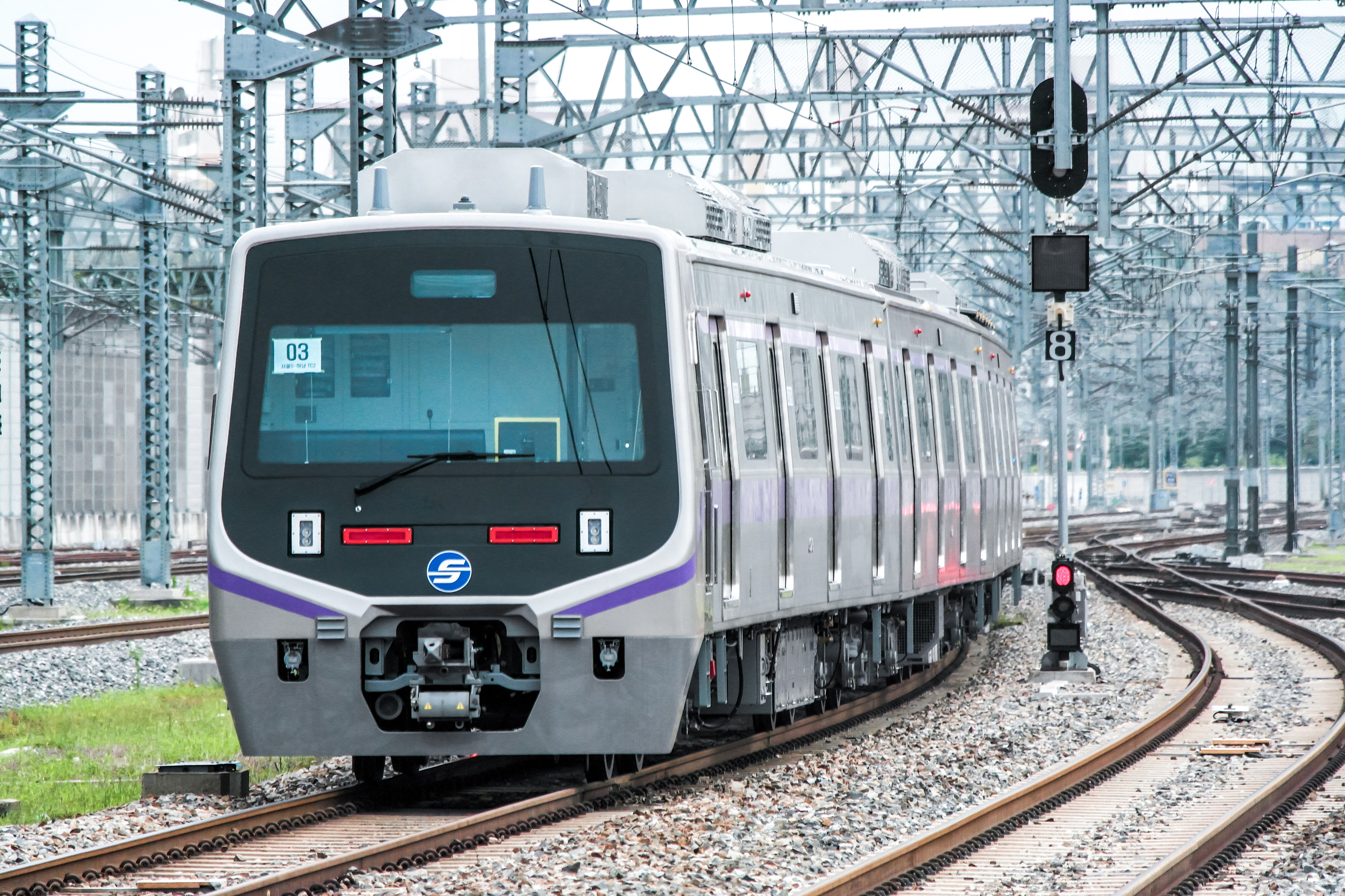 Picture train is Seoulmetro 5000 series at Daejeon station. (Garage forwarding)